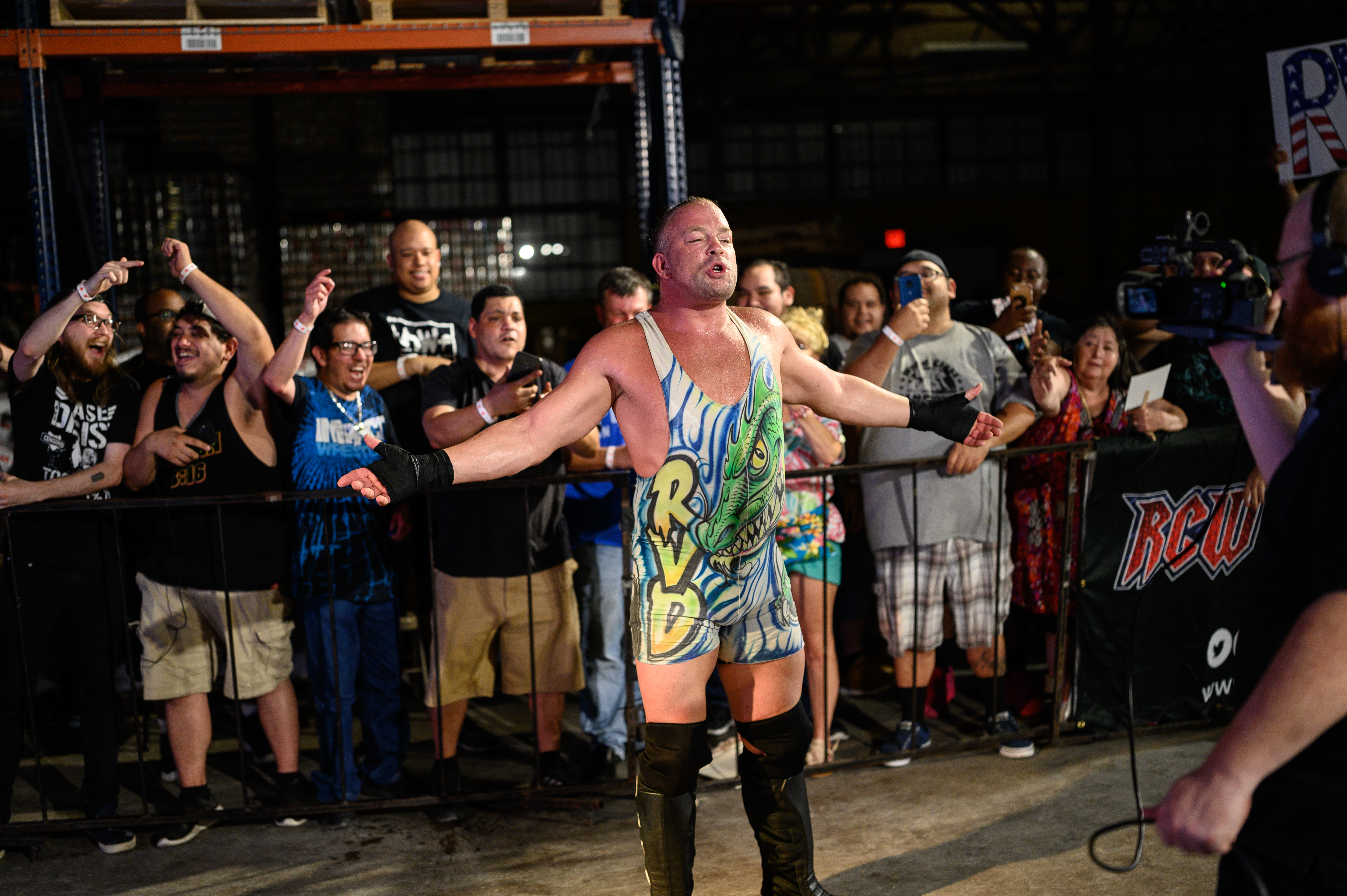 Pro Wrestler Rob Van Dam